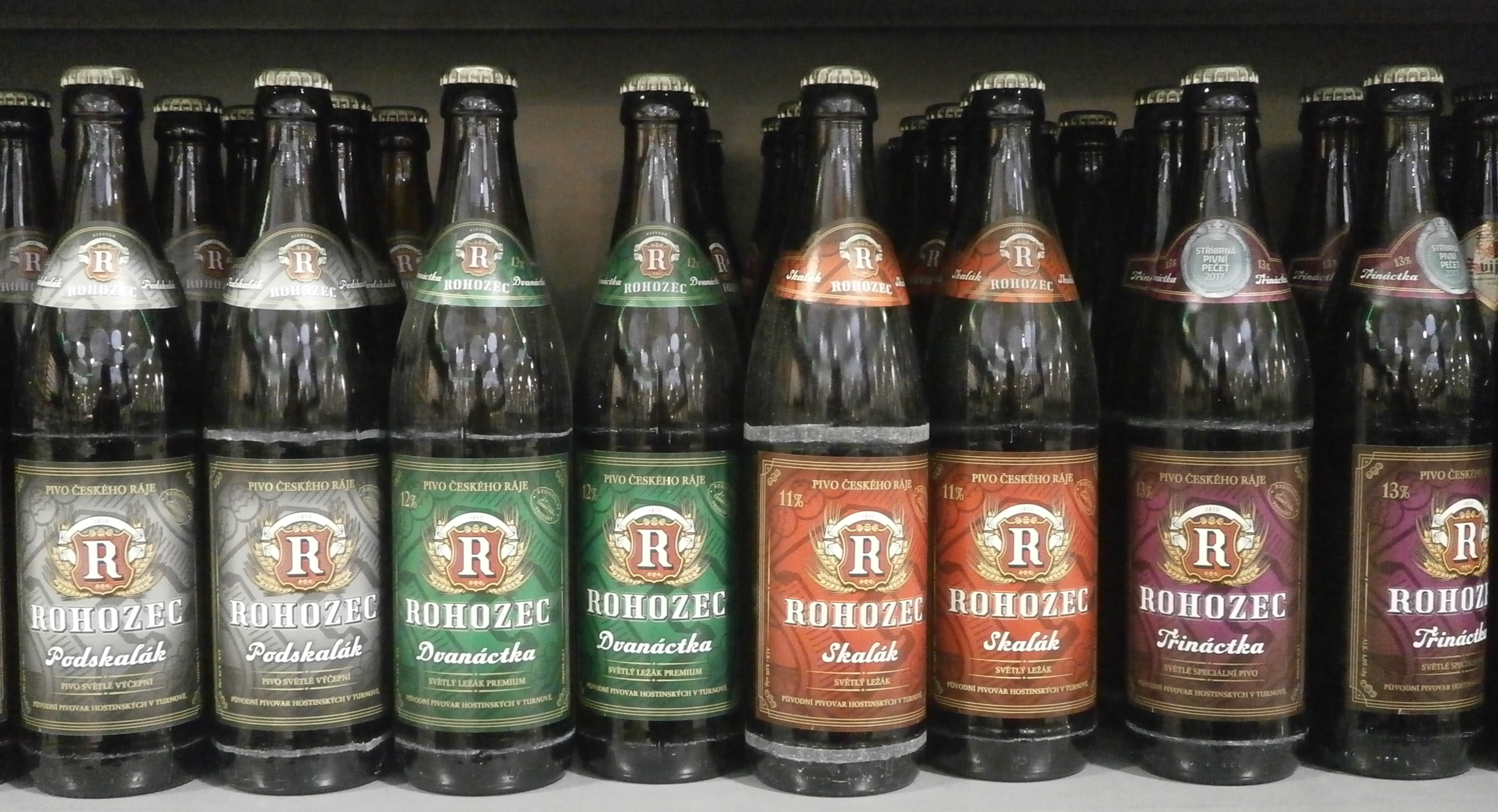 Beers from Pivovar Rohozec